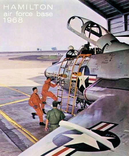 Covery of 1968 Hamilton AFB Yearbook